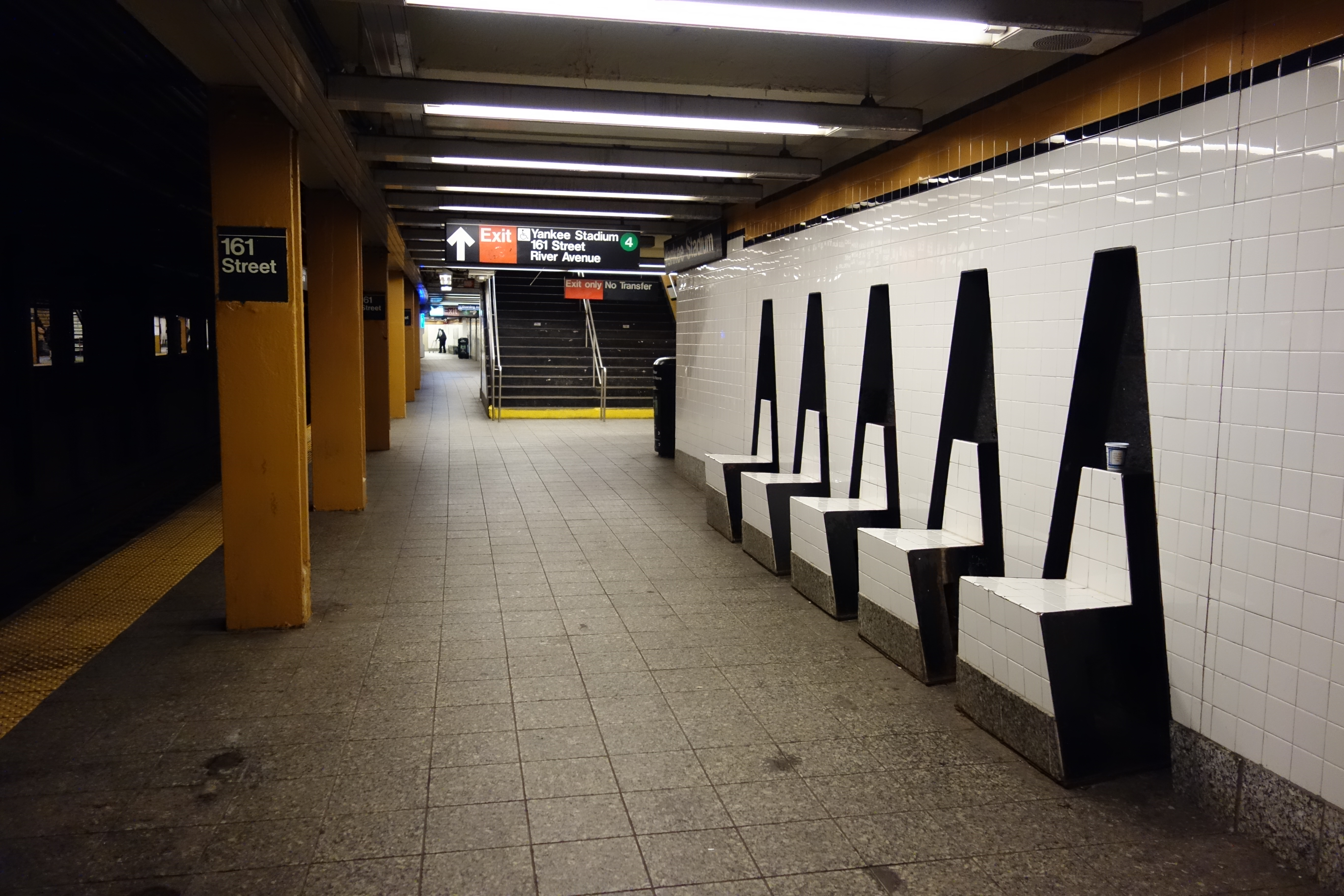 The Bronx-bound platform of the 161st Street – River Avenue (Yankee Stadium) IND station in Highbridge / Concourse, Bronx. Looking east (railroad north).